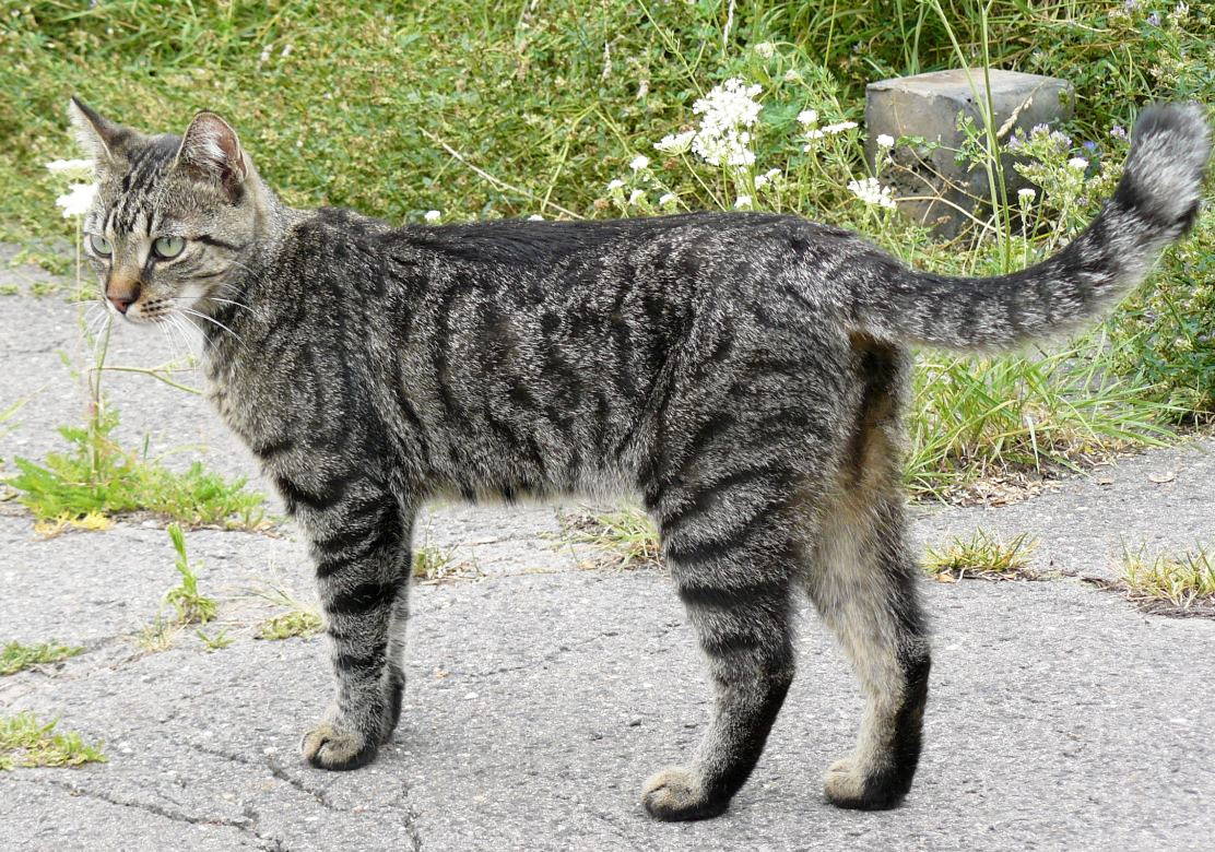 Tabby cat